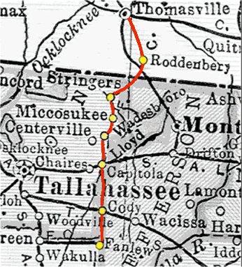 created by user.